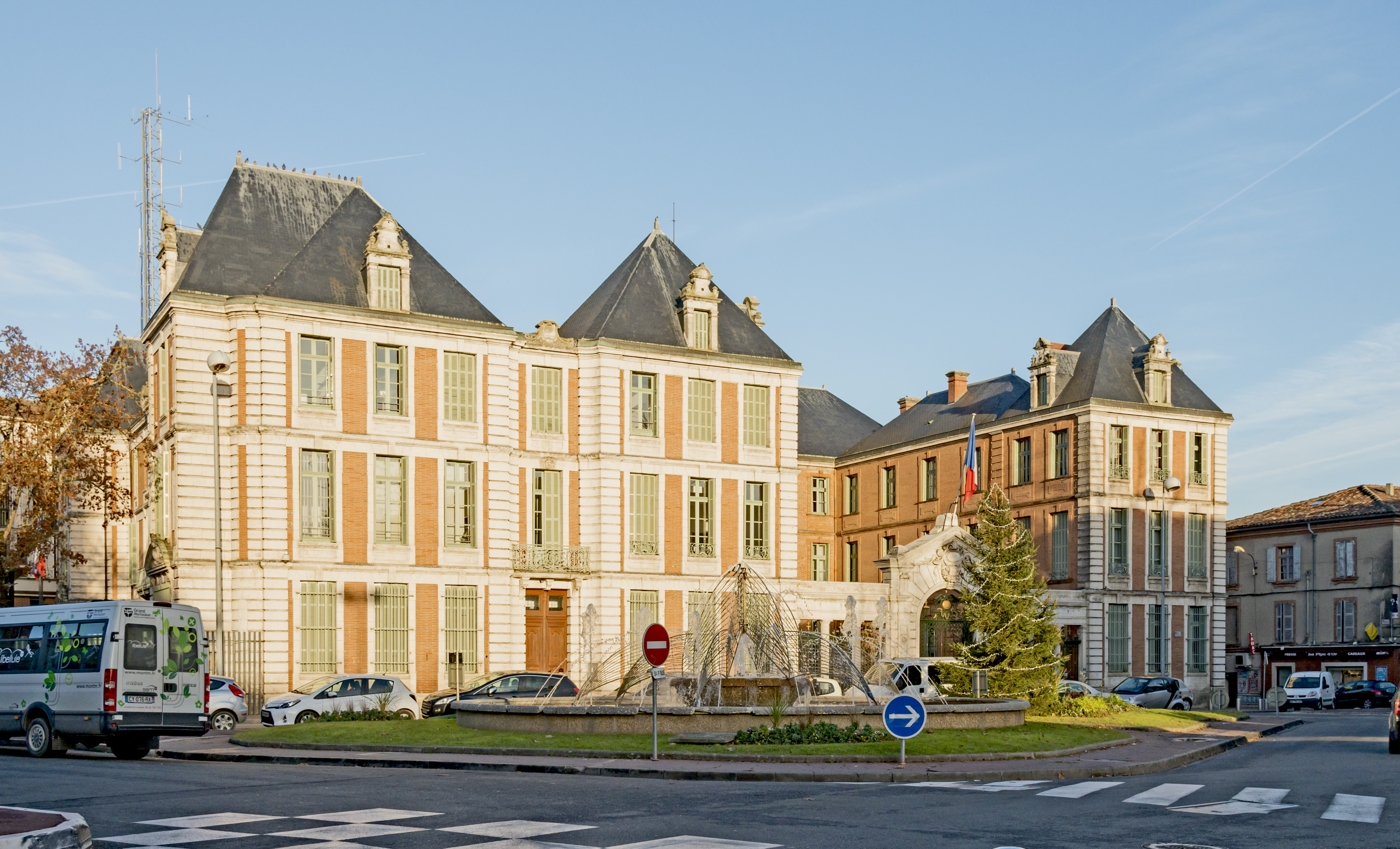 Préfecture of Tarn-et-Garonne.